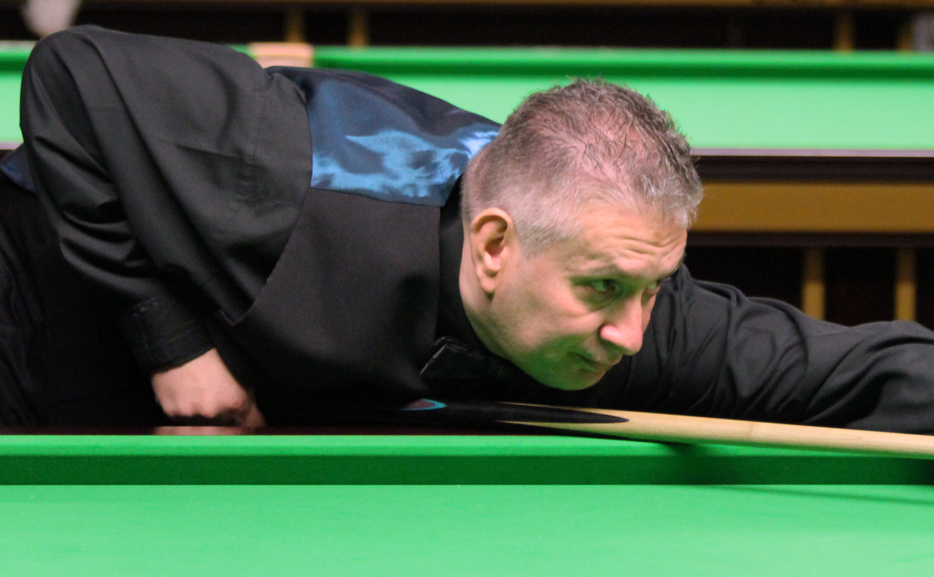 Tony Drago beim Paul Hunter Classic 2012